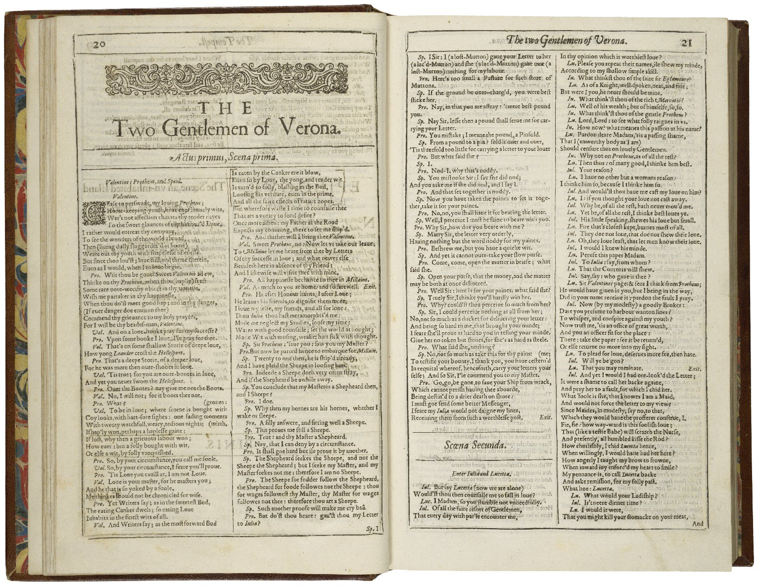 The first page of Shakespeare's Othello, printed in the First Folio of 1623